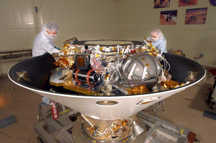 The Phoenix Mission, slated for launch in August 2007, is the first project in NASA's openly competed program of Mars Scout missions. The Phoenix lander is currently housed in a 100,000-class clean room at Lockheed Martin Space Systems' facilities near Denver, Colo. Shown here, the lander is contained inside the backshell portion of the aeroshell (with the heat shield removed). The lander is sitting in an inverted or upside-down position, with the underside of the lander facing up. The lander's "legs" are not yet attached. Work on the lander will continue in late 2005, when the Phoenix team will make specific modifications and prepare for assembly, test and launch operations to get underway in spring 2006.